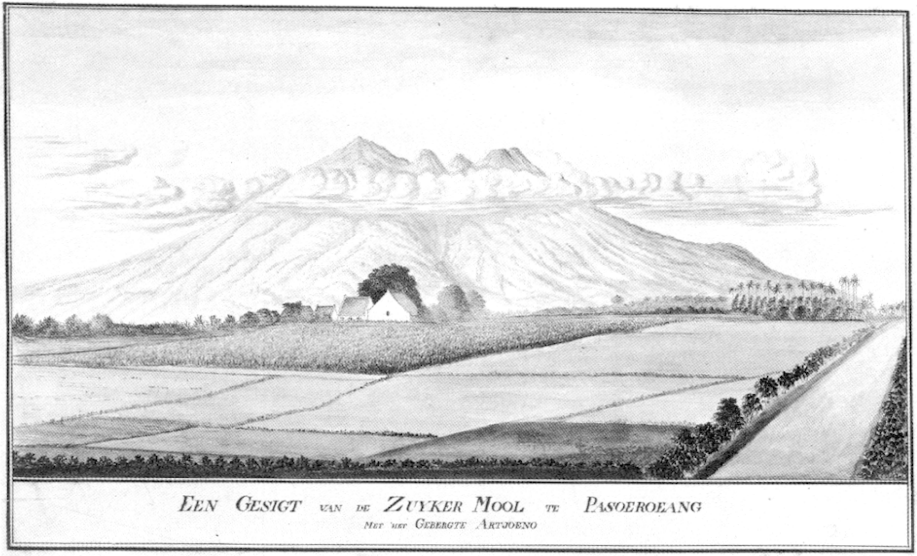 An engraving of a sugar mill in Pasuruan, presumably belonging to Majoor Han Kik Ko (Collection Nicolaus Engelhardt)